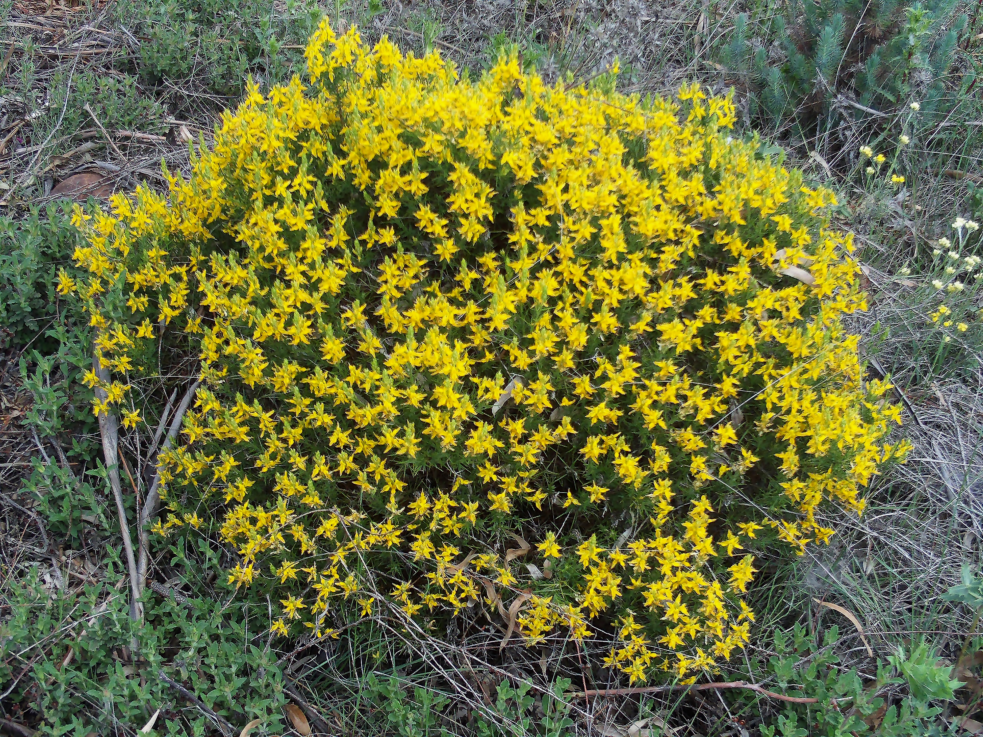 Genista hirsuta Habitus Dehesa Boyal de Puertollano, Spain